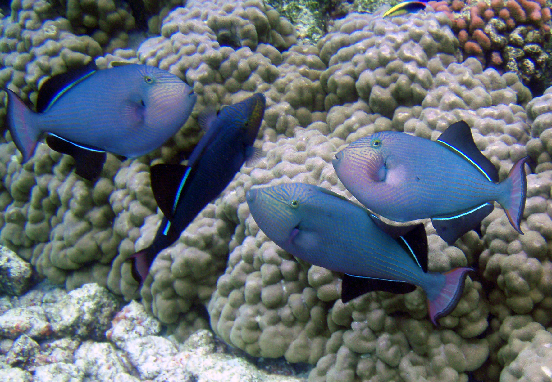 Black triggerfishs ,Melichthys niger in Kona,Hawaii